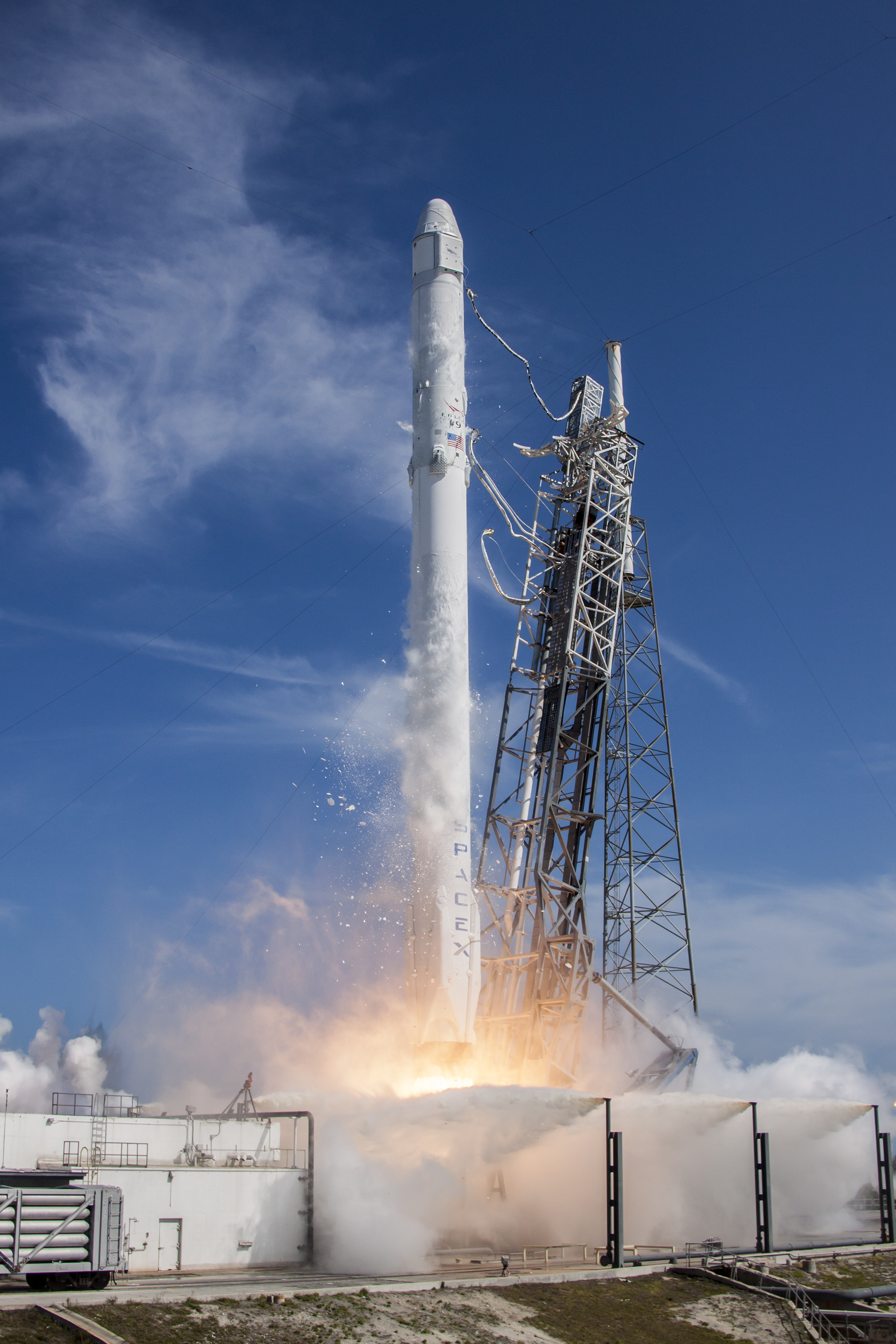 Launch of the Falcon 9 rocket carrying the SpaceX CRS-6 Dragon spacecraft bound for the International Space Station.